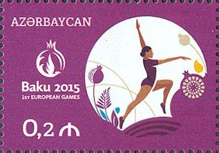 Baku 2015. First European Games.(2nd edition) N 1203 - 20 qapik – Gymnastics Aerobic